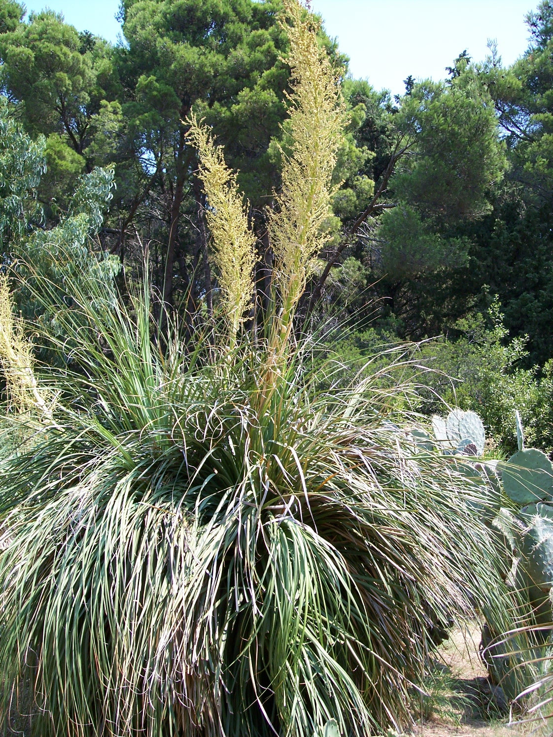 Species Nolina longifolia Genus Nolina Familia Ruscaceae (or by the table of botanical garden Agavaceae) Location Botanical Garden on Lokrum isle (Croatia)